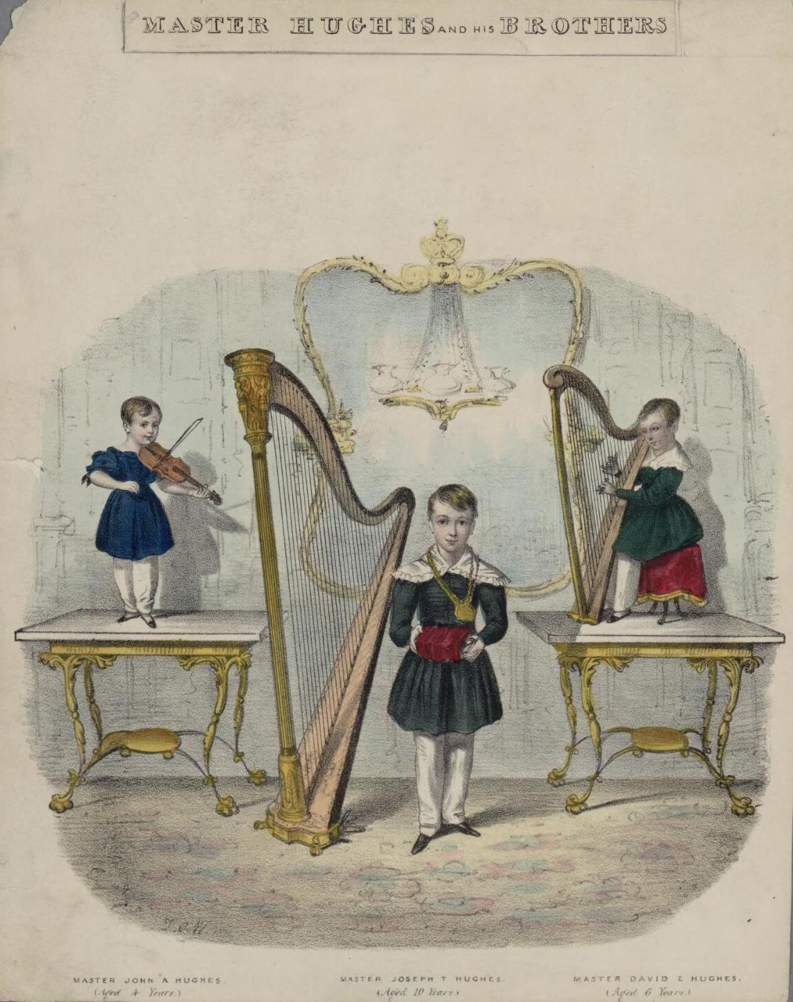 A portrait from the Welsh Portrait Collection at the National Library of Wales. Depicted person: Joseph Tudor Hughes – boy harpist (1827 -1841)